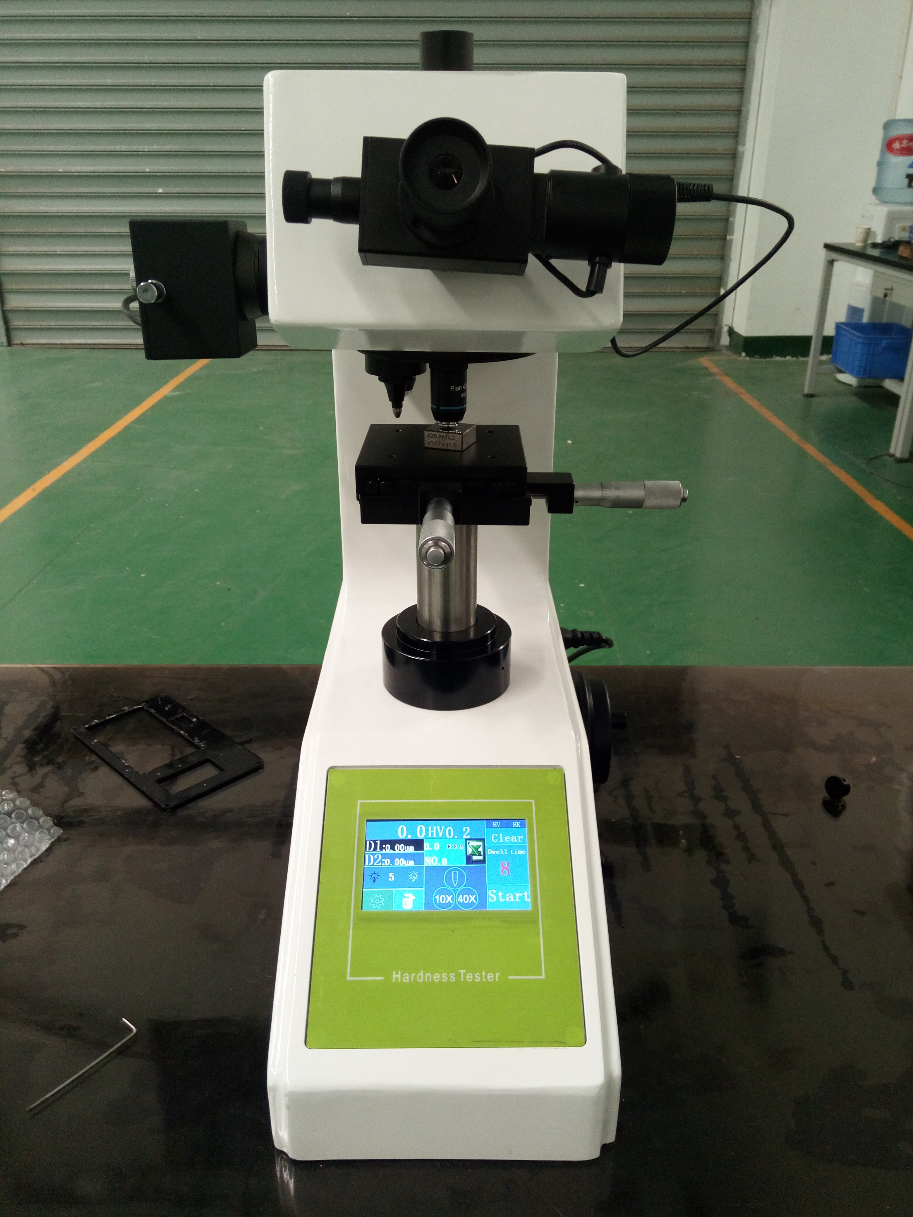 EBP Micro Vickers hardness tester DV-1AT-4.3